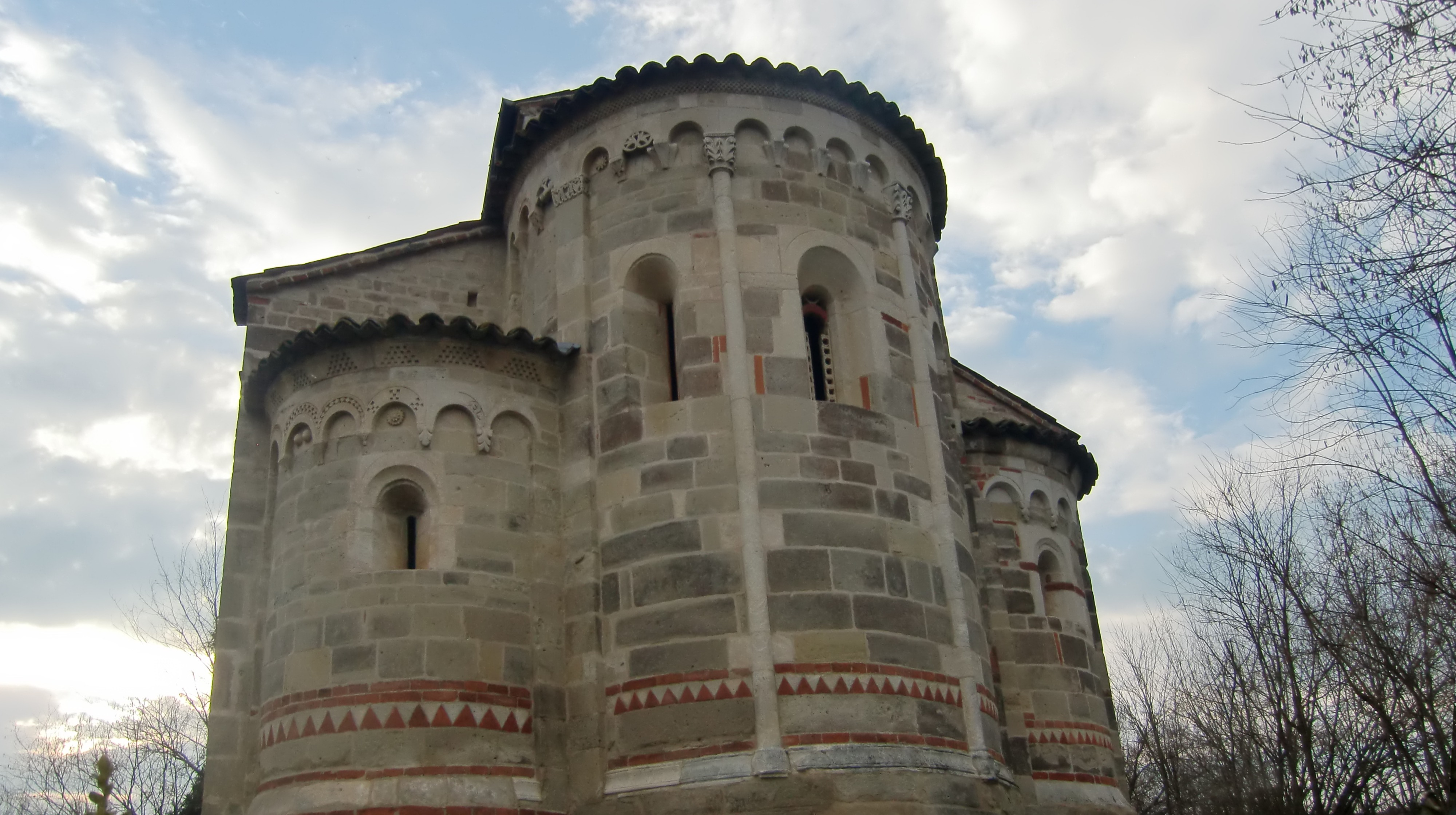 Chiesa di San Secondo, Cortazzone (AT), Italy, romanesque church, XII century, the apses